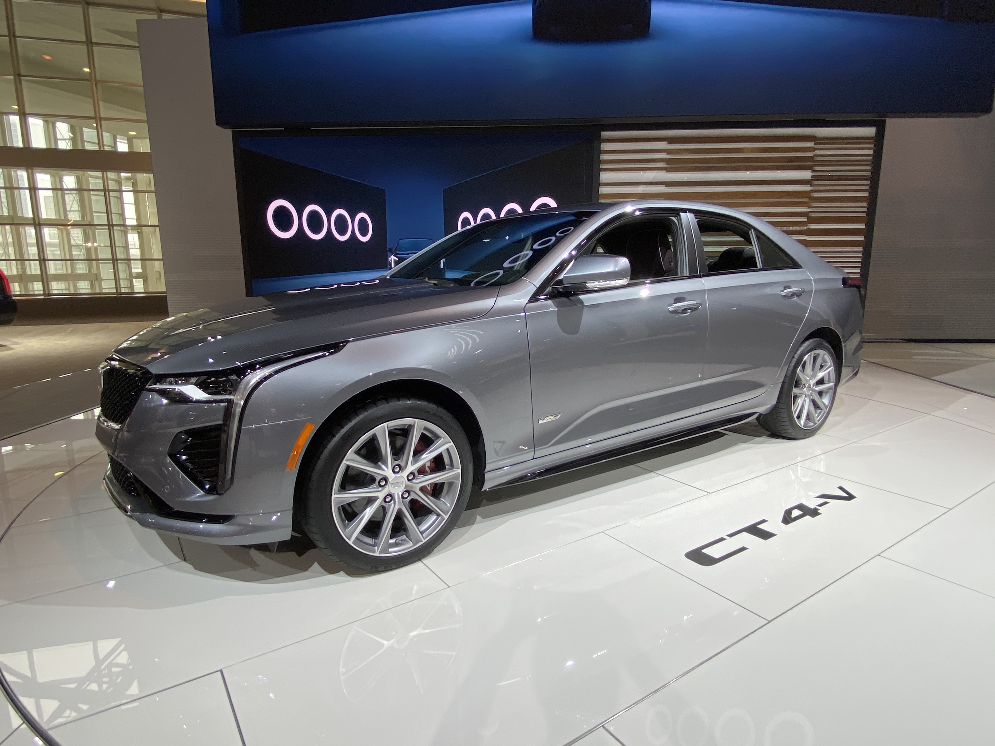 You can use this image on your website. You have to give a credit with link to our website For example: "Source: " Chicago Auto Show 2020. Cadillac CT4 V